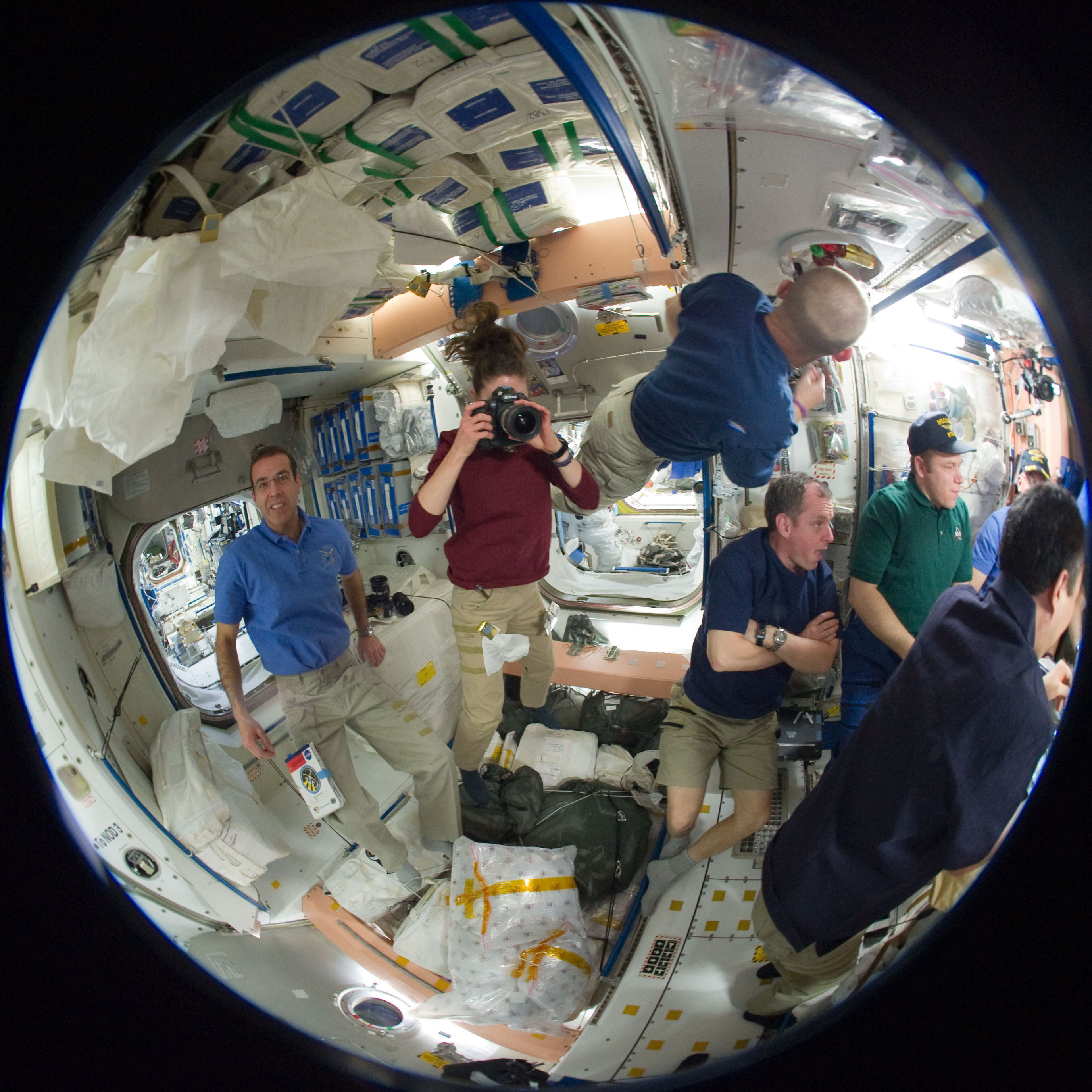 A fish-eye lens attached to an electronic still camera was used to capture this image of STS-131 and Expedition 23 crew members in the Unity node of the International Space Station while space shuttle Discovery remains docked with the station. Pictured are NASA astronauts Rick Mastracchio, Tracy Caldwell Dyson, Clayton Anderson and T.J. Creamer; along with Russian cosmonaut Oleg Kotov and Japan Aerospace Exploration Agency (JAXA) astronaut Soichi Noguchi.